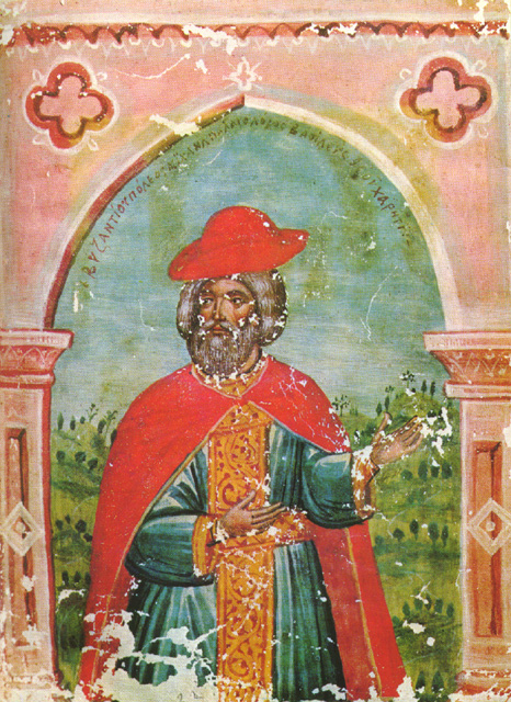 Portrait of the Byzantyne Emperor Michael VIII Palaiologos. National Library of Russia, gr. 118, f. 22r ( = Minuscule 575)